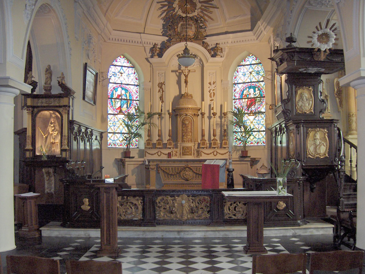 High altar at the Sint-Annakerk; Stene, Ostend, Belgium